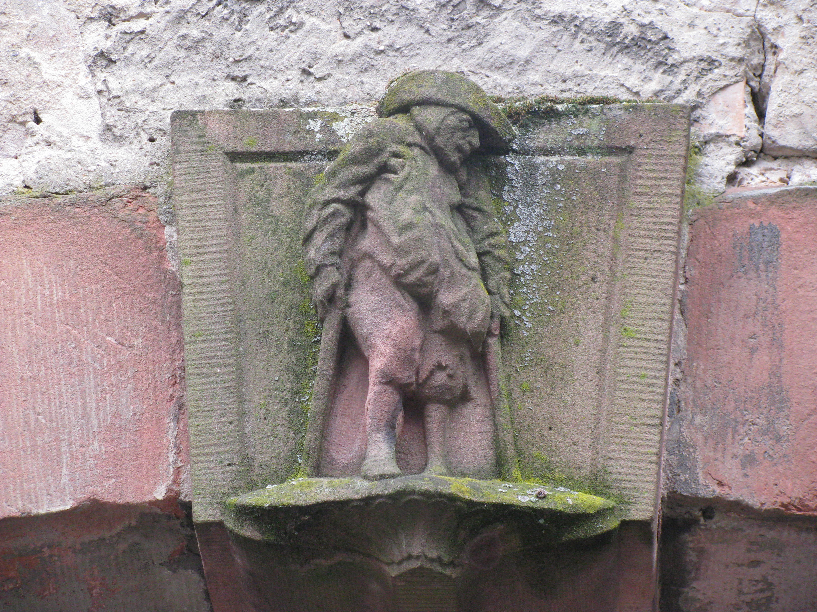 Headstone depicting a handicapped beggar in the back gate of the medieval town hospital (St. Georgen-Gasse 2, Neues Spital founded 1259), Speyer. The headstone was made around 1760/1770 by Vincenz Möhring.